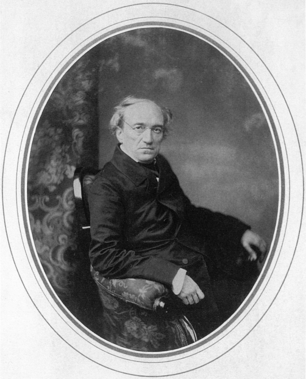 Fyodor Tyutchev